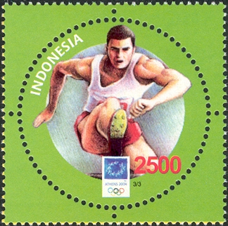 Stamps of Indonesia